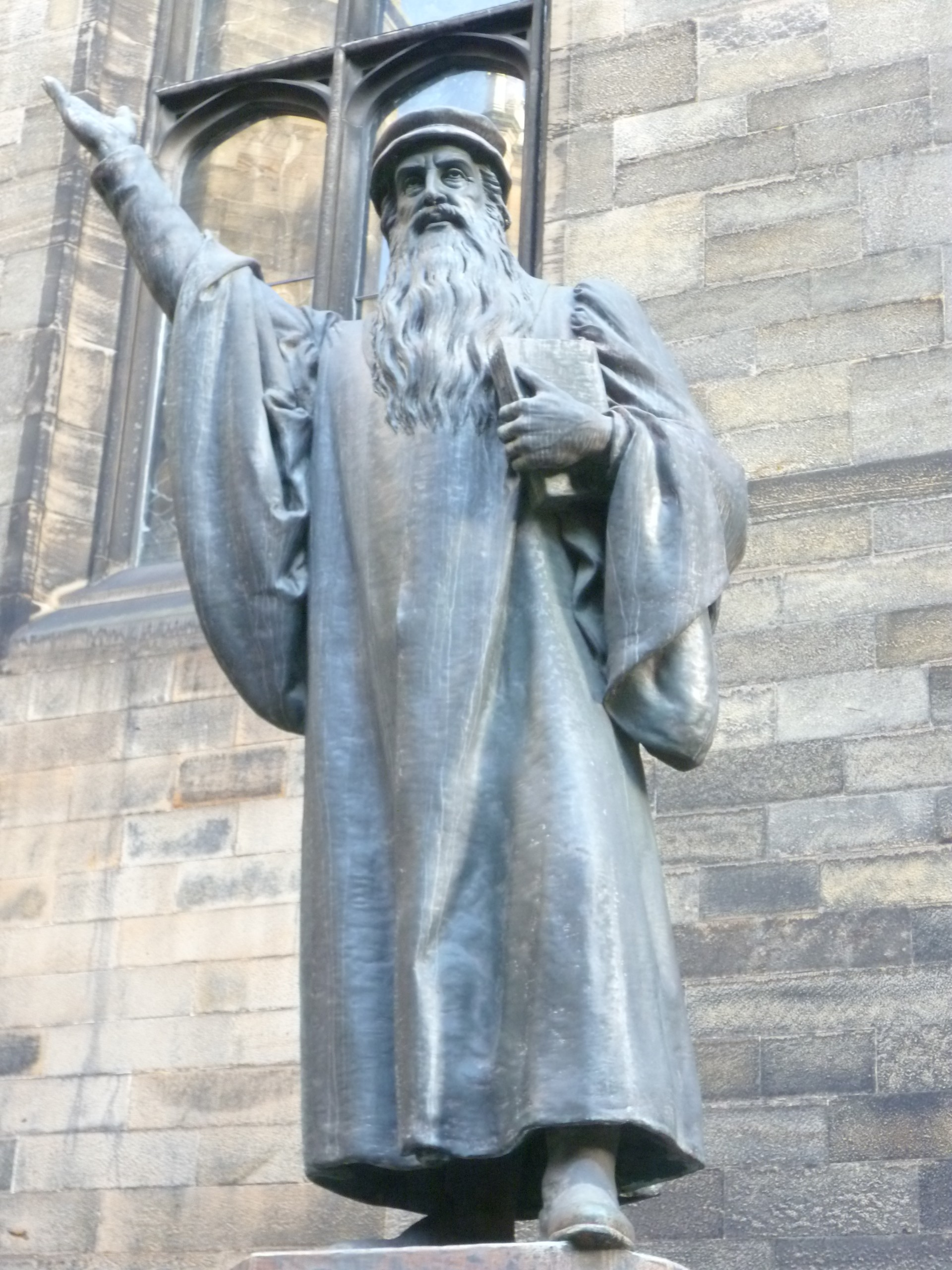 "As touching the doctrine taught by our ministers, and as touching the administration of sacraments used in our churches, we are bold to affirm that there is no realm this day upon the face of the earth that hath them in greater purity; yea (we must speak the truth whomsoever we offend), there is none (no realm we mean) that hath them in the like purity. For all others (how sincere that ever the doctrine be, that by some is taught), retain in their churches and the ministers thereof some footsteps of Antichrist, and some dregs of papistry; but we (all praise to God alone) have nothing within our churches that ever flowed from that Man of Sin." -- John Knox, 1566